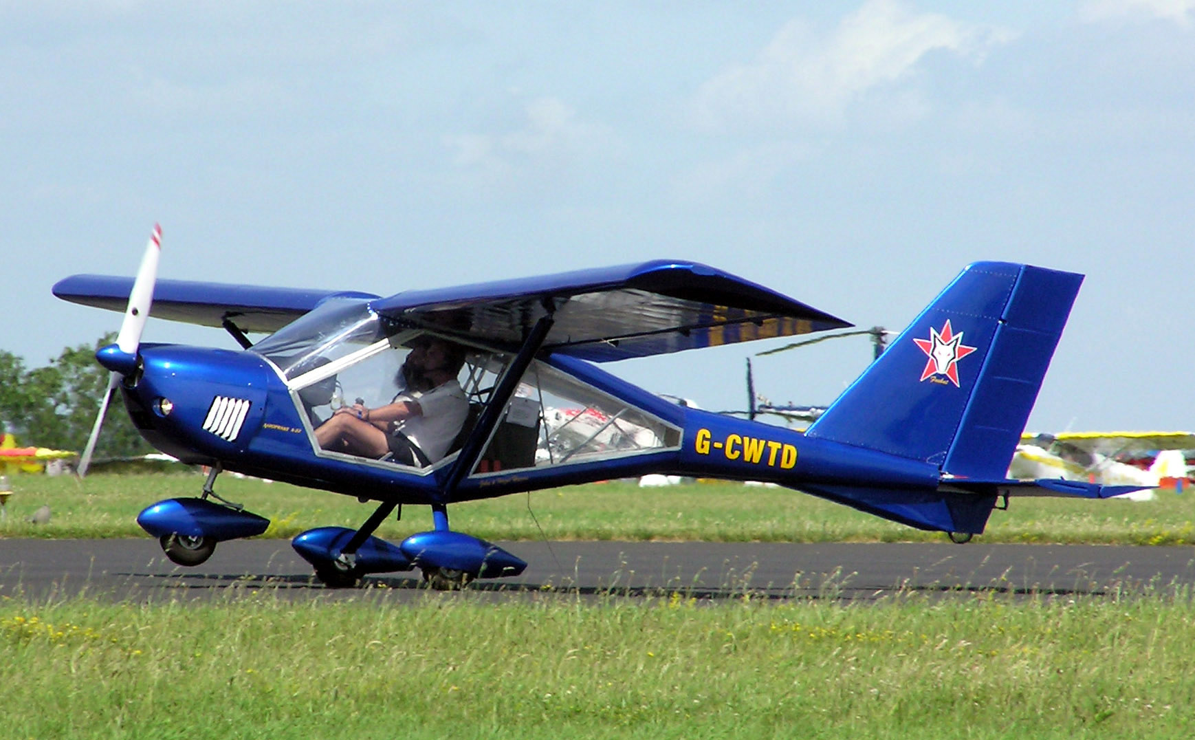 Aeroprakt A22 Foxbat ultralight (G-CWTD) at Kemble Airfield, Gloucestershire, England. Built in 2004. Photographed by Adrian Pingstone in July 2005 and released to the public domain.